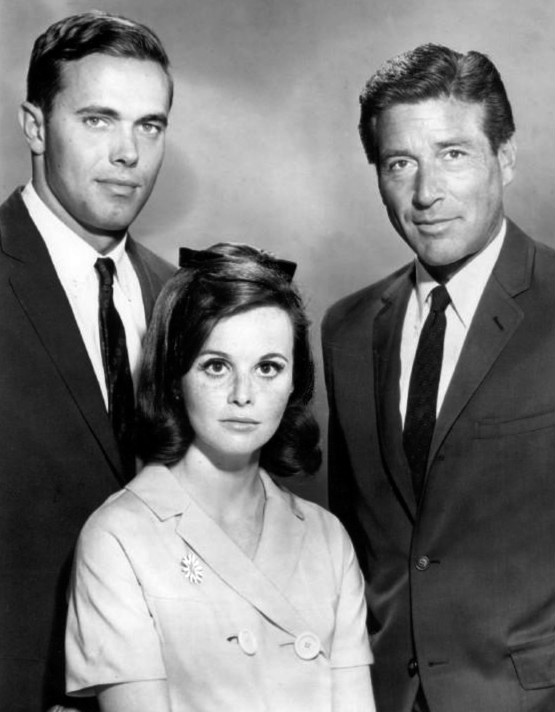 Publicity photo from the television program The FBI. From left: Stephen Brooks, Lynn Loring, Efrem Zimbalist, Jr.